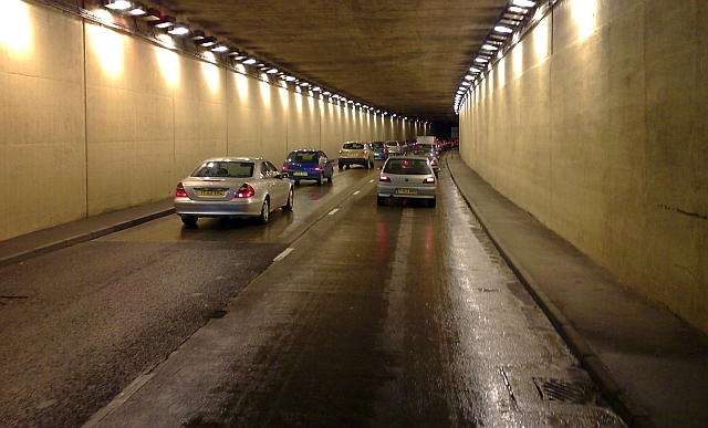 A643 Ingram Distributor Road Tunnel The A643 Elland Road is regarded locally as a part of the Leeds Inner Ring Road and runs south west from the city through Morley, Cleckheaton, Gomersall and Brighouse to terminate west of Huddersfield at junction 23 of the M62 (Trans Pennine Motorway).